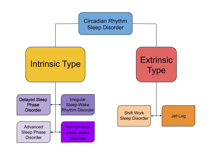 Schematic of different types of CRSDs